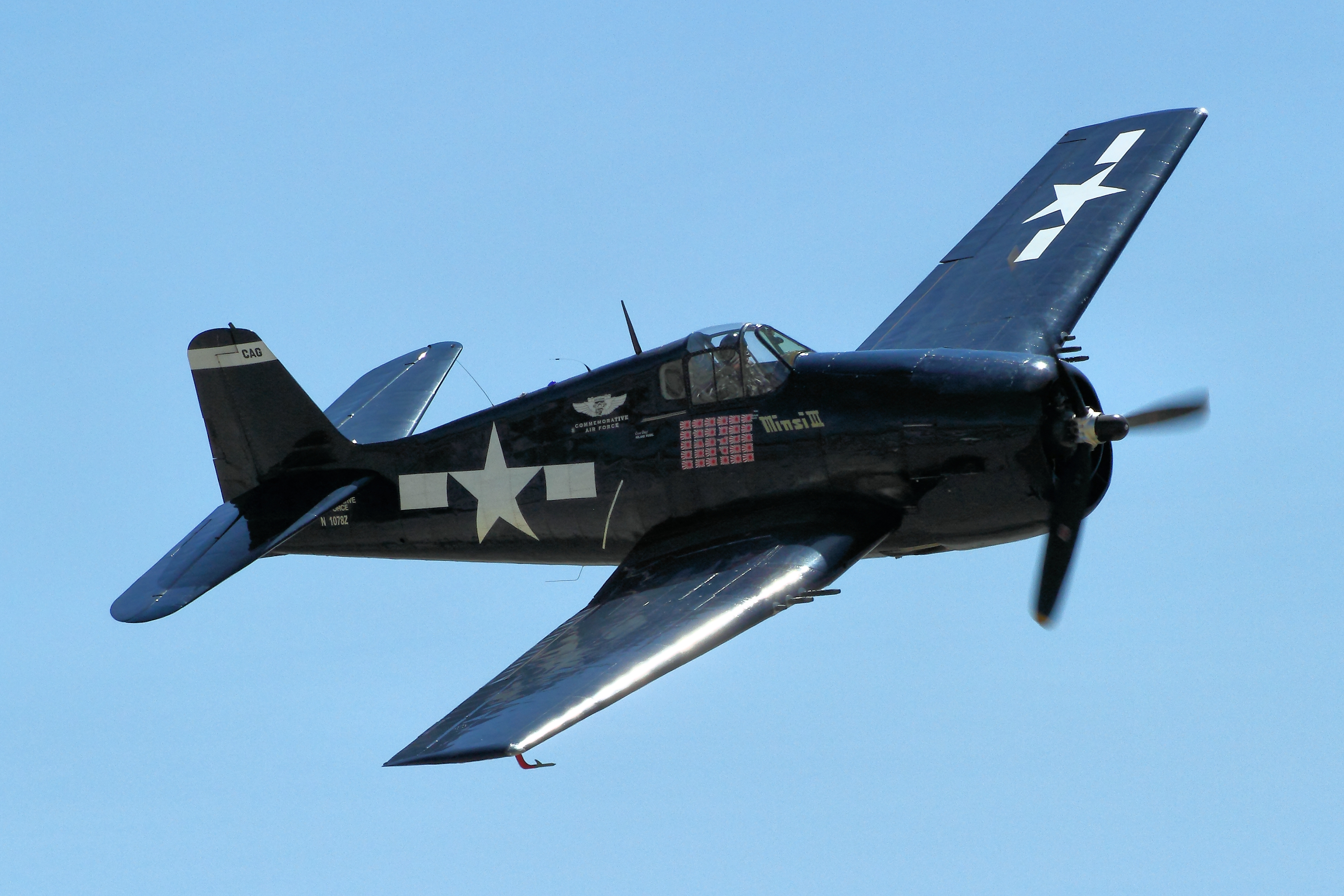 Grumman F6F Hellcat - Chino Airshow 2014